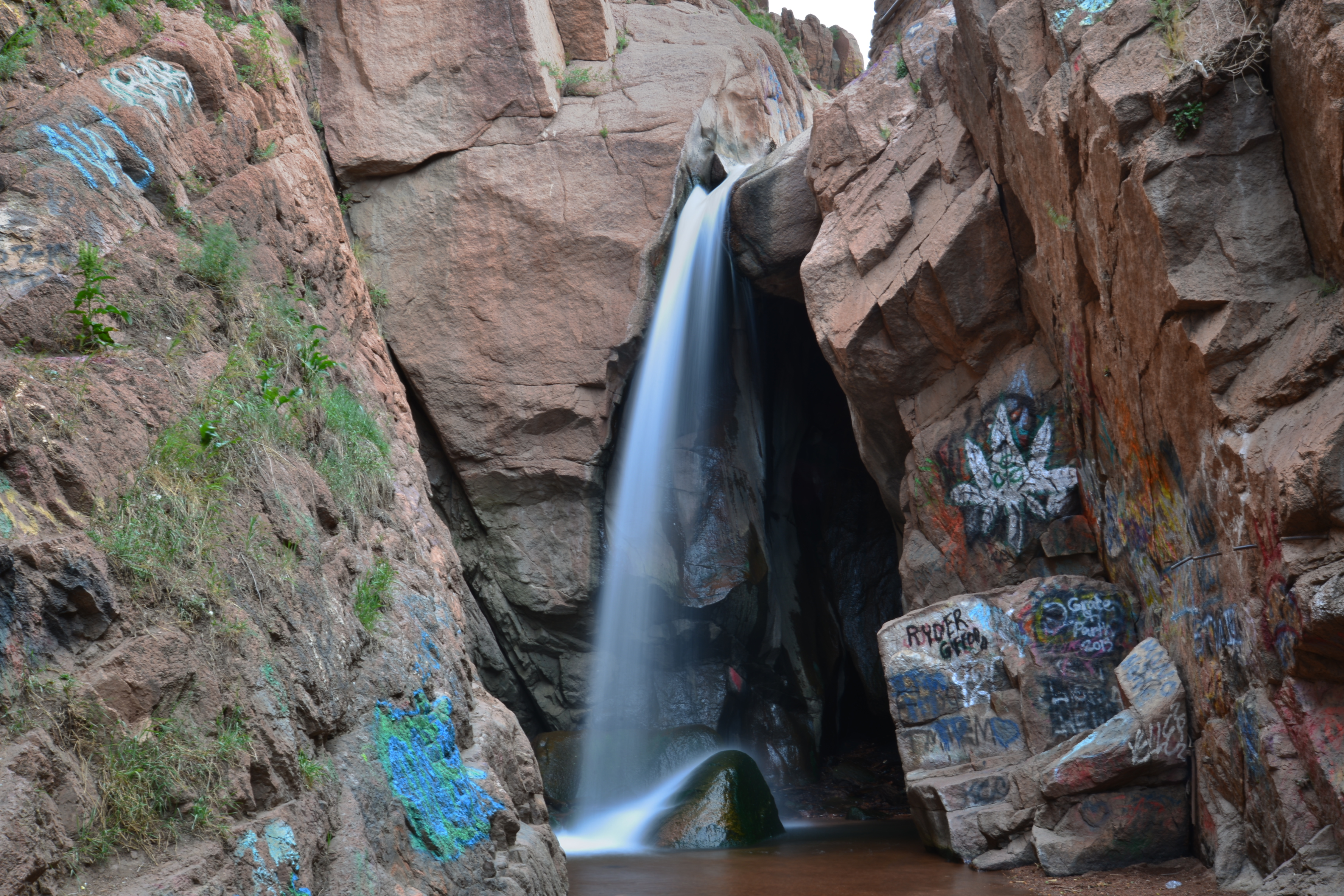 Rainbow Falls, on Fountain Creek, north of downtown Manitou Springs, CO